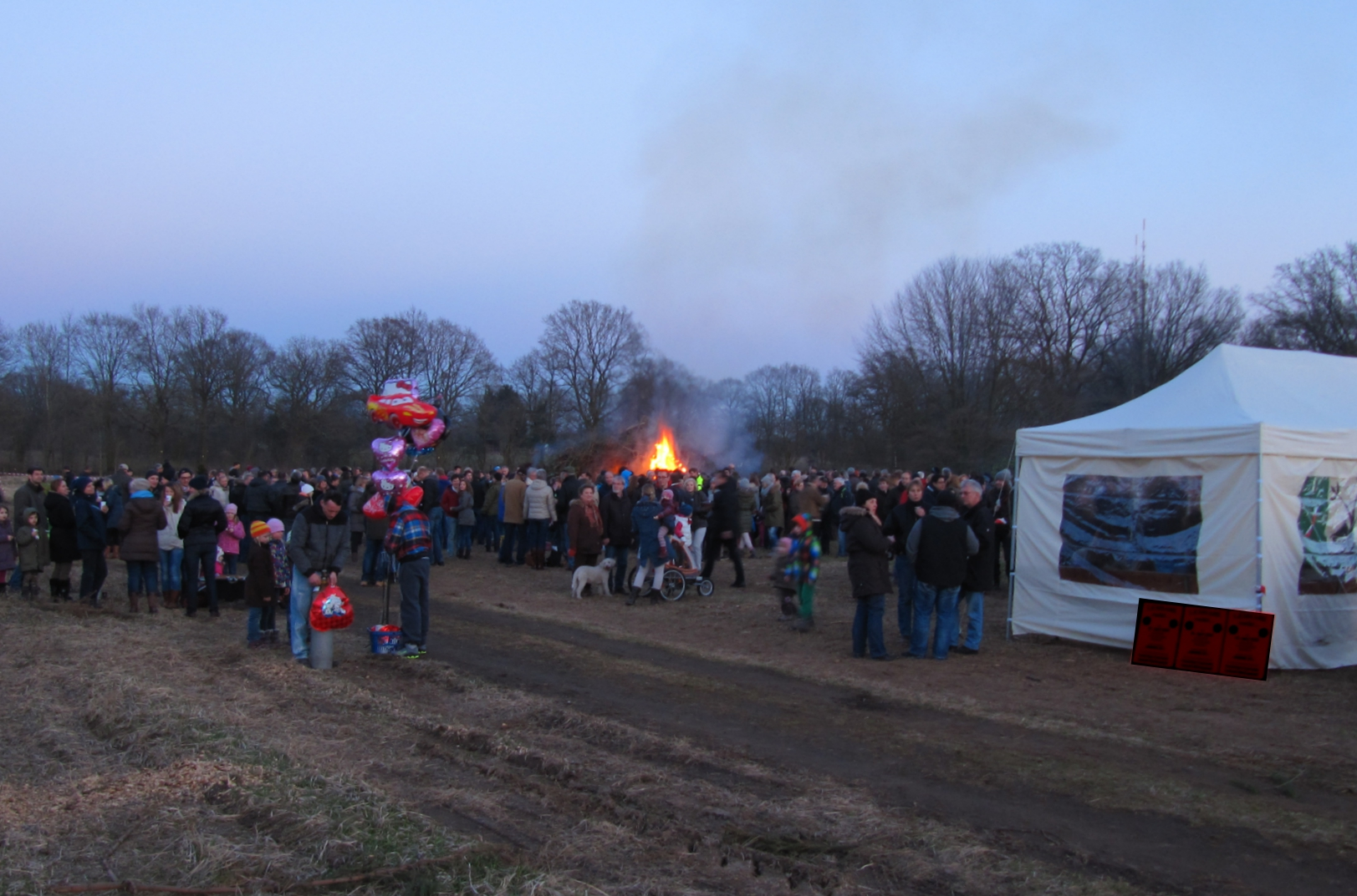 Easter Fire in the borough of Lemsahl in Hamburg, Germany, 2015.